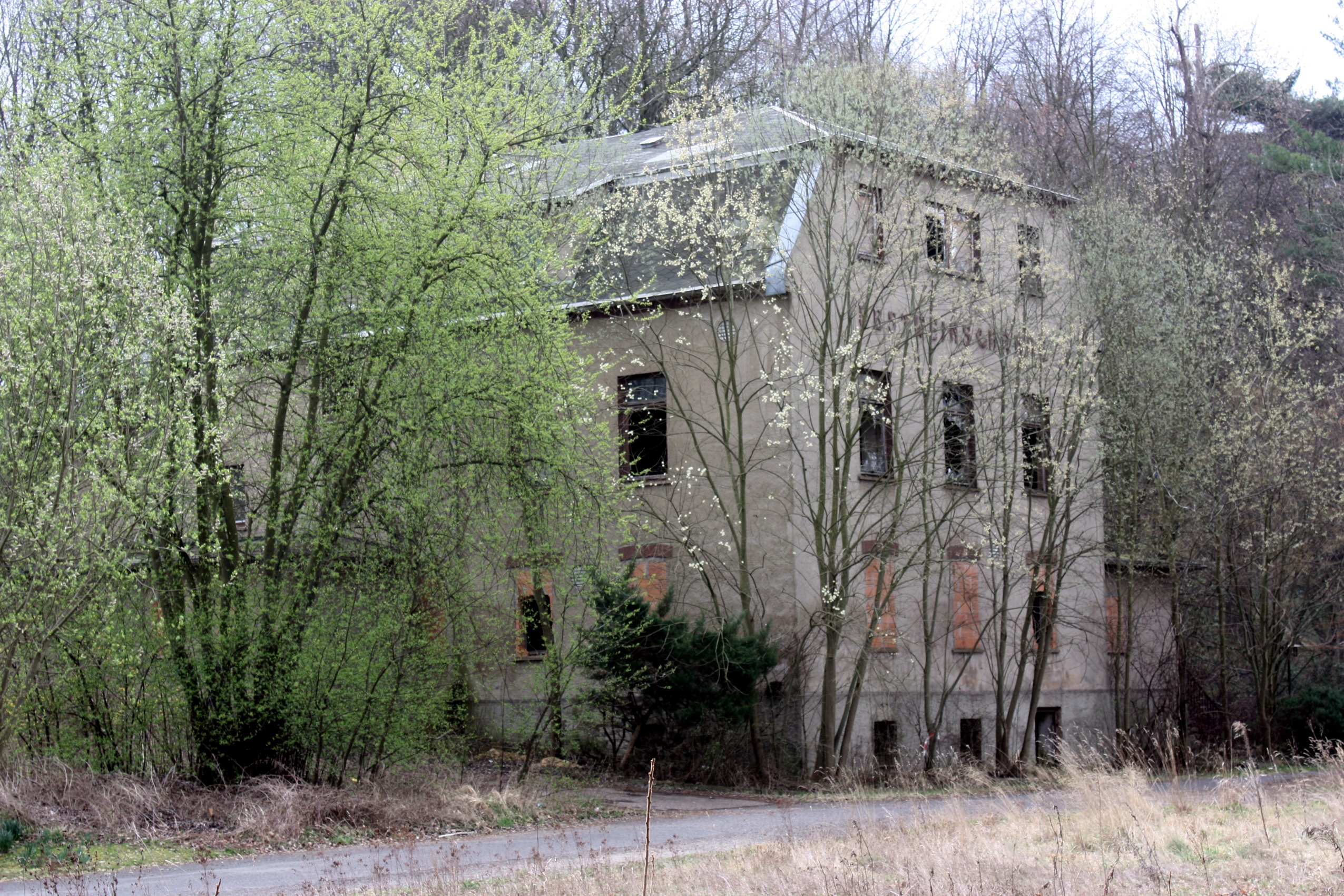 Rötha, the former restaurant "Obstweinschänke" at the reservoir Rötha